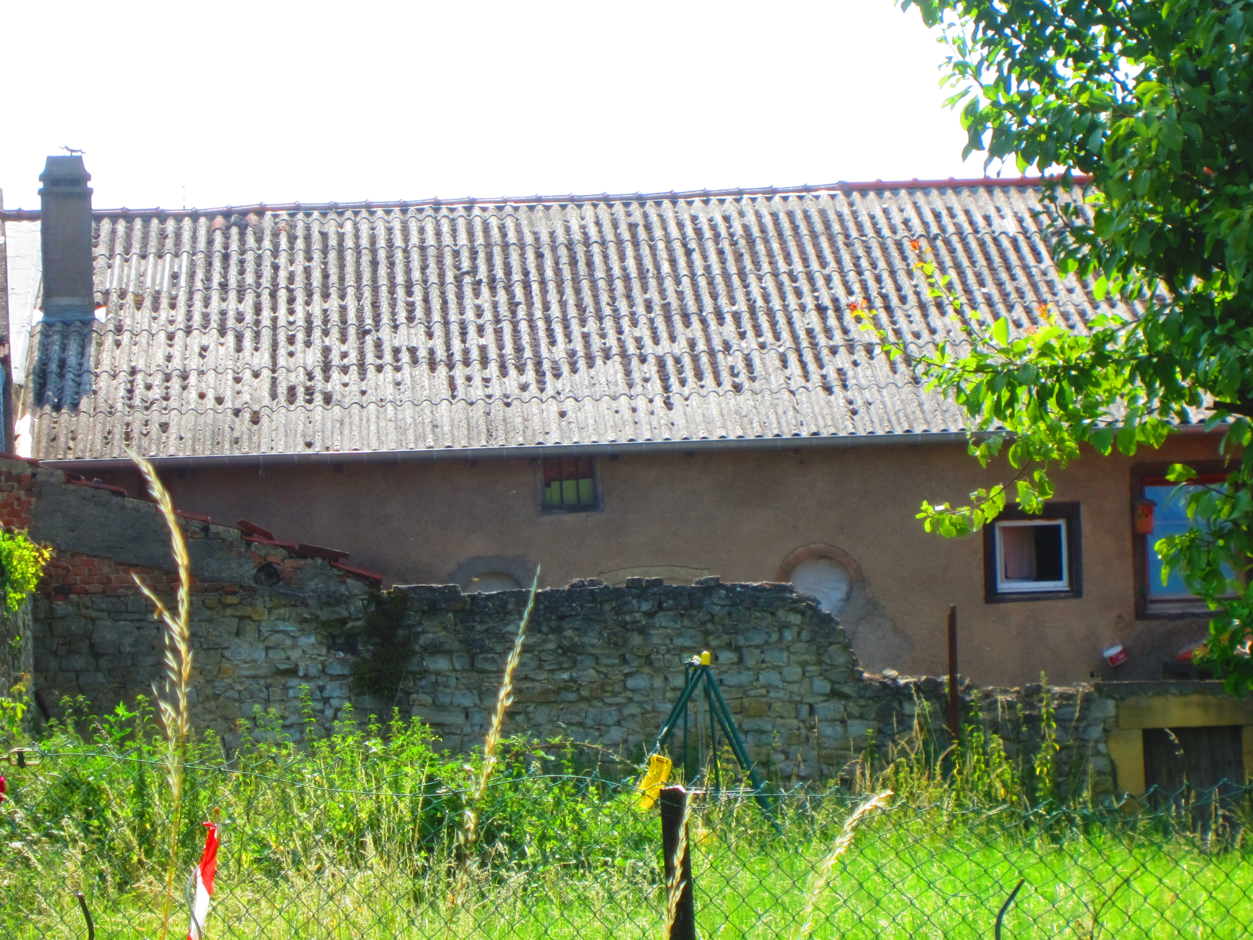 Synagogue Luttange (3)